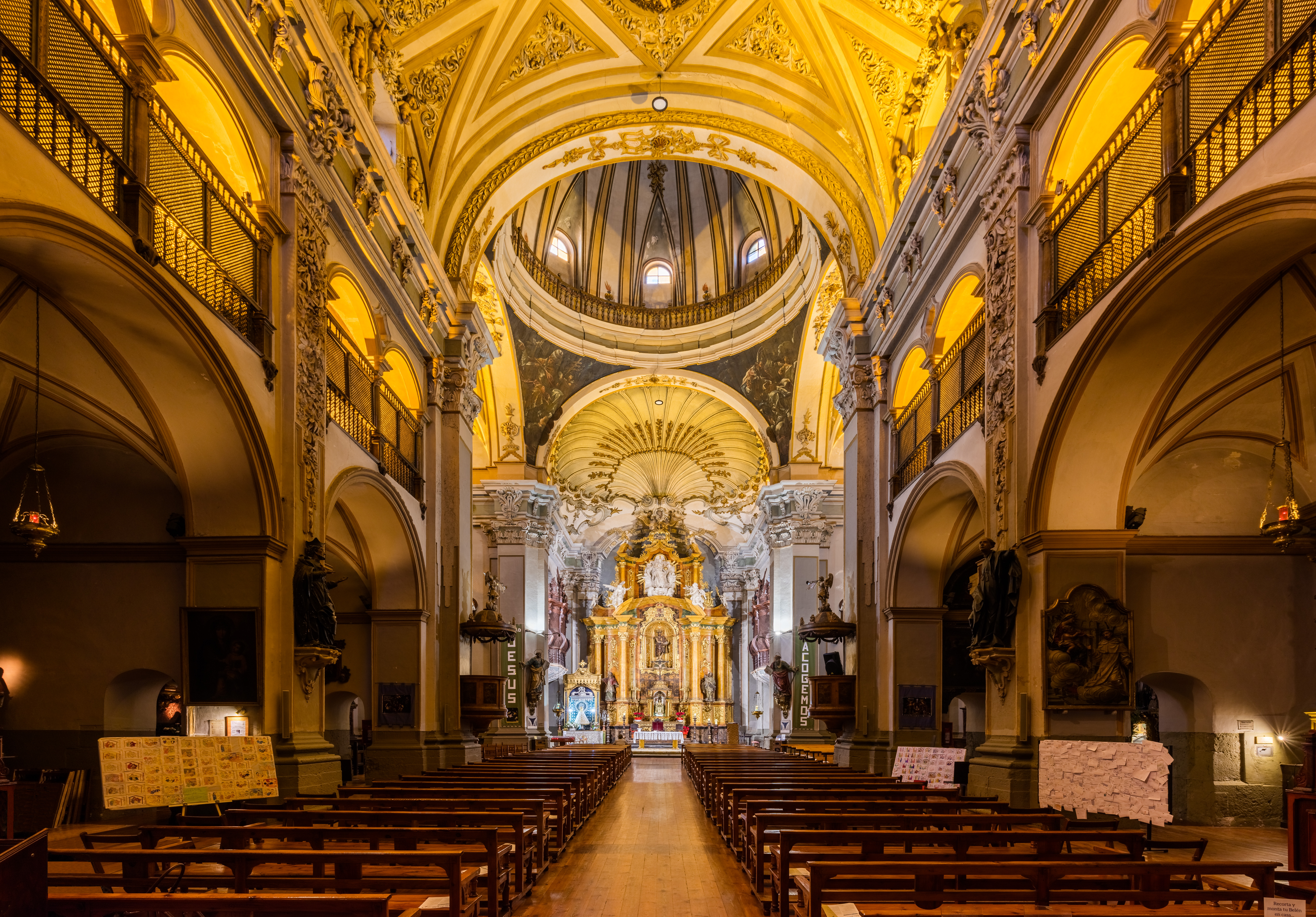 Church of San Juan el Real in the center of Calatayud, province of Zaragoza, Spain. The baroque church was built in the 17th and 18th century and hosts among others some of the first paintings still conserved by Francisco de Goya in the pendentives of the main dome.